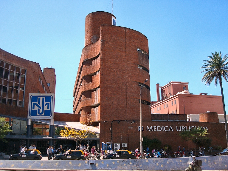 The central building and hospital of Medical Uruguaya, 8 de Octubre Avenue, Montevideo.